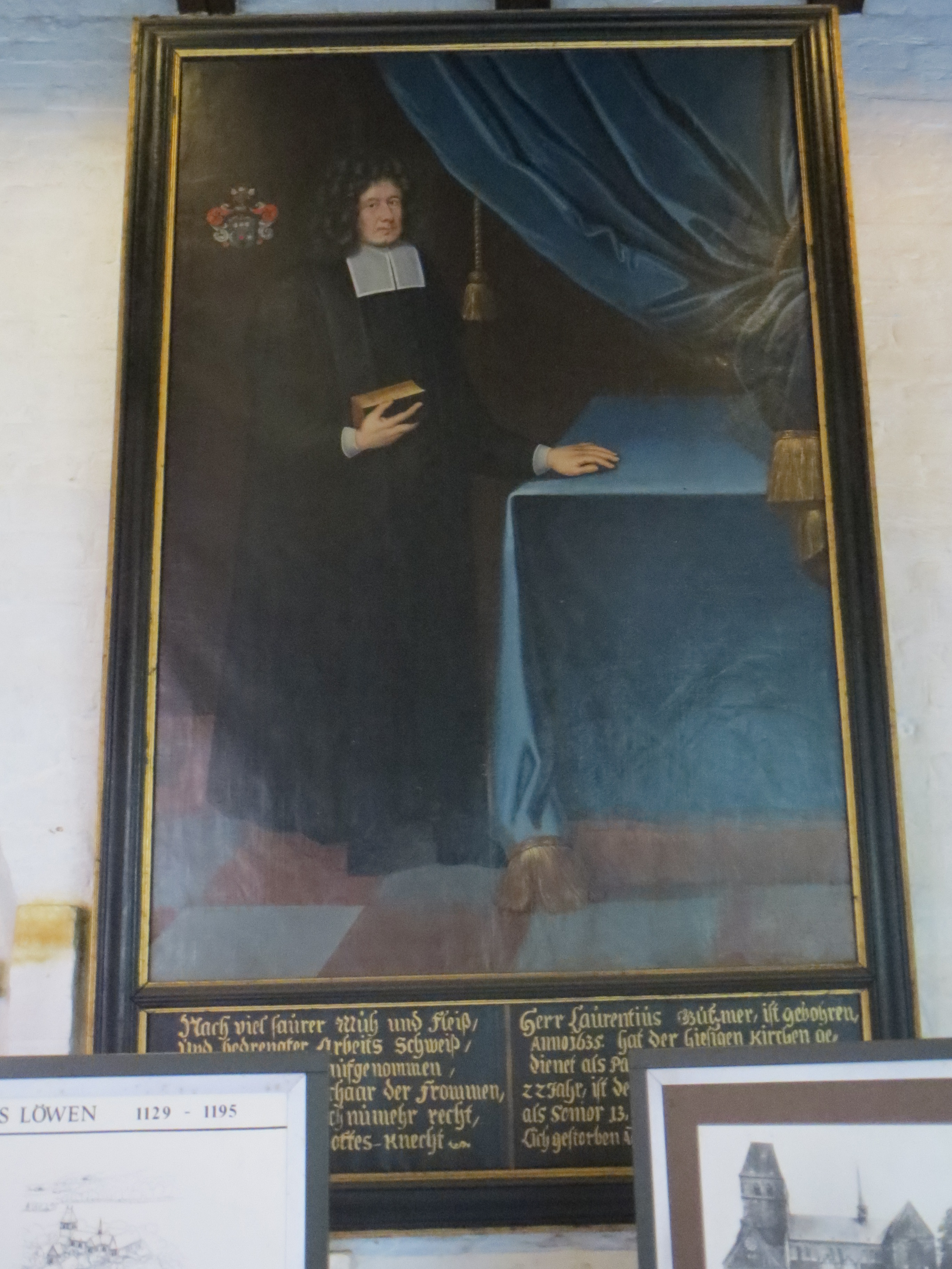 Epitaph of Laurentius Gutzmer (1636-1703)